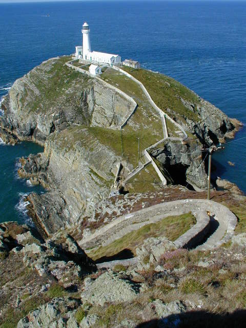 South Stack Anglesey In the foreground is the extremely steep and tortuous path, well it was tortuous on the way down, just torture on the way back up.